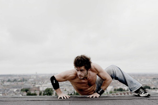 Ilir Hasani doing parkour